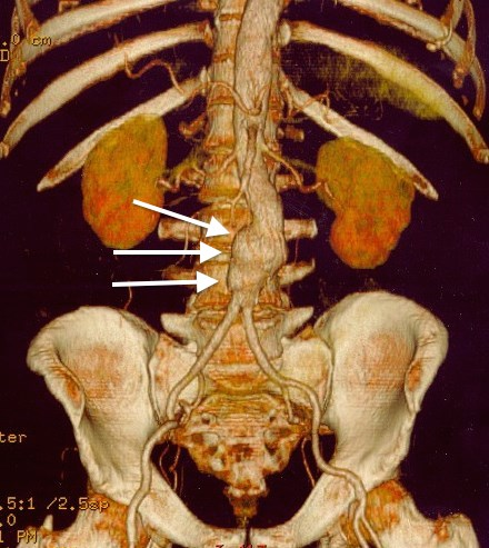 3D reconstruction of CT scan of infrarenal abdominal aortic aneurysm